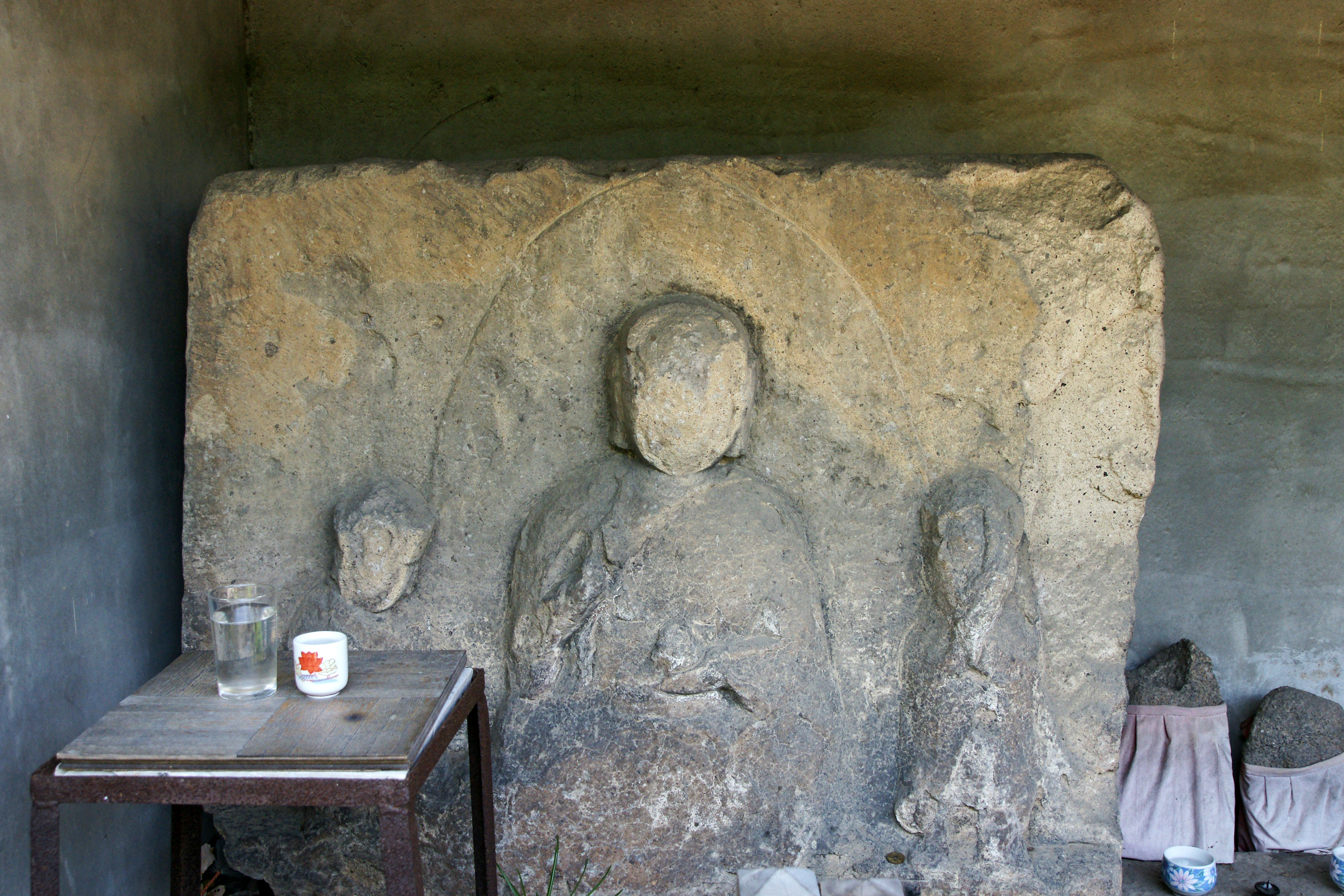 Anrakujuin in Kyoto, Kyoto prefecture, Japan.